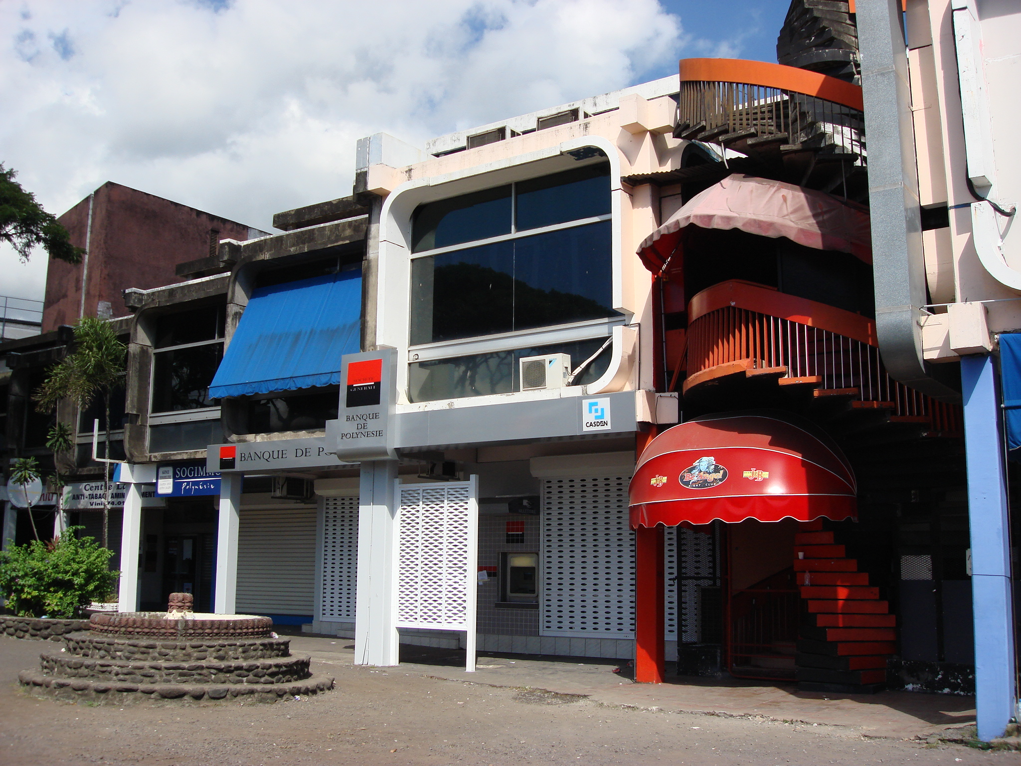 Houses in Papeete, Tahiti, French Polynesia